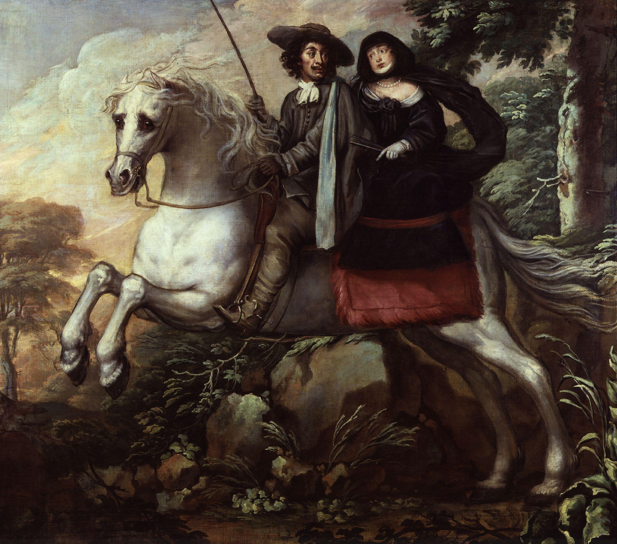 King Charles II and Jane Lane riding to Bristol, by Isaac Fuller (died 1672). All images in this batch have been confirmed as author died before 1939 according to the official death date listed by the NPG.